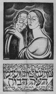 A placard in Yiddish, advertising for the premiere of The Dybbuk by the Vilna Troupe (performed 9.12.1920).